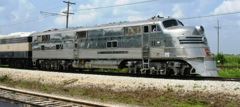 Preserved EMD E5 at Illinois Railway Museum Photo by Sean Lamb (User:Slambo), July 18 en:2004